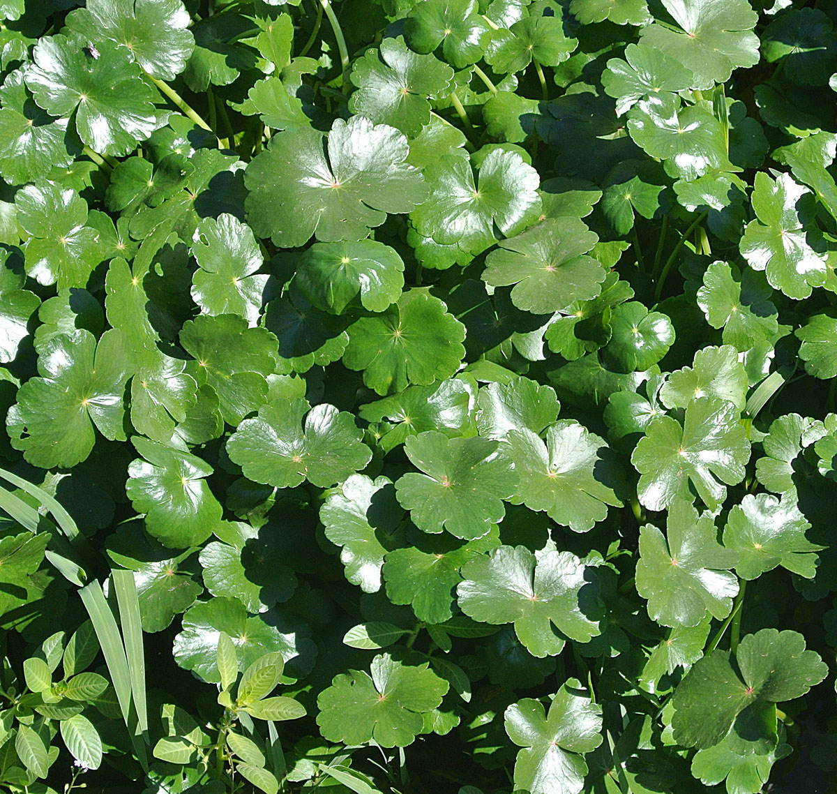 The Floating Marsh Pennywort is widespread in both tropical and temperate parts of the world.